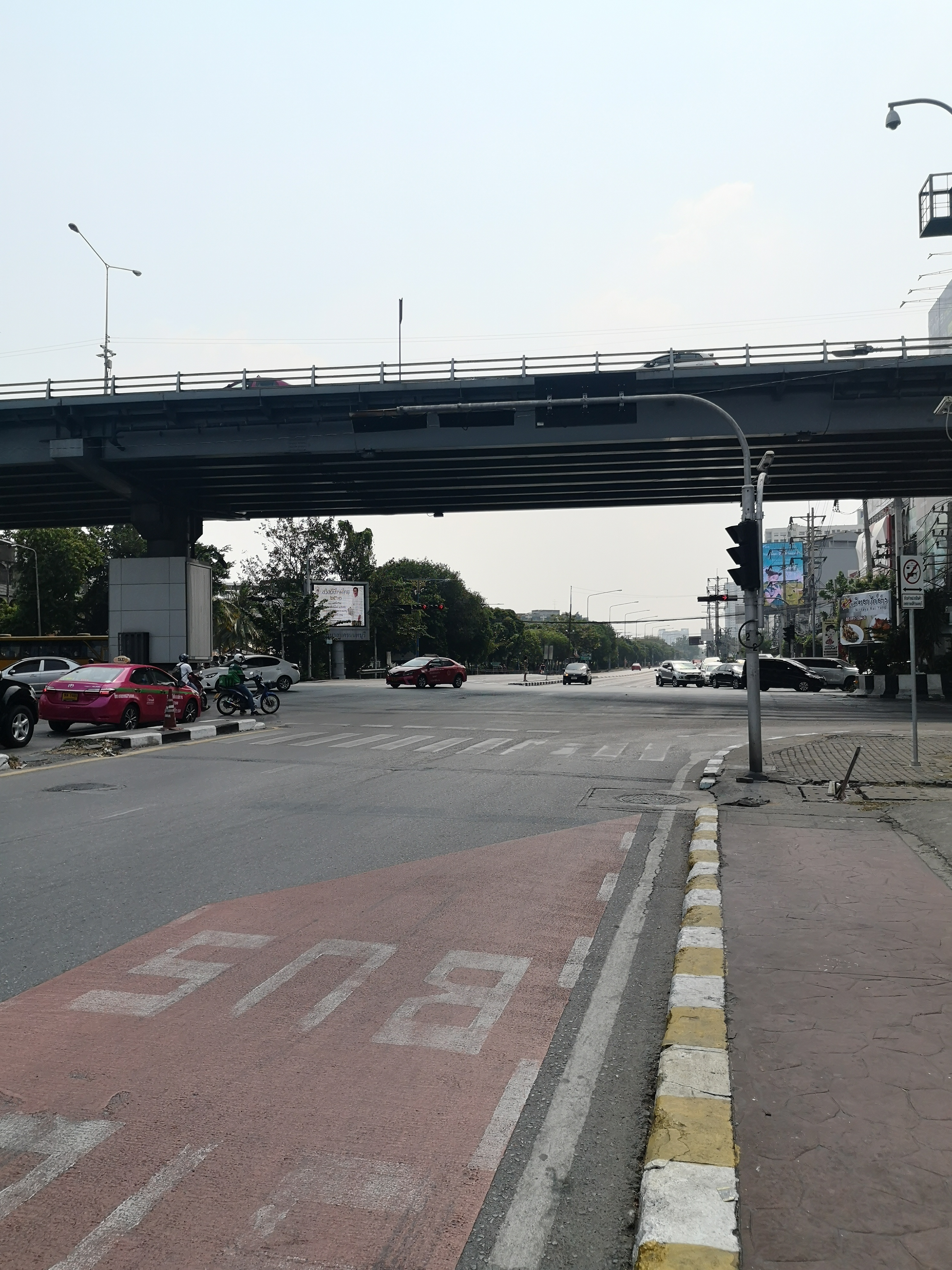 Thanon Pracha Chuen